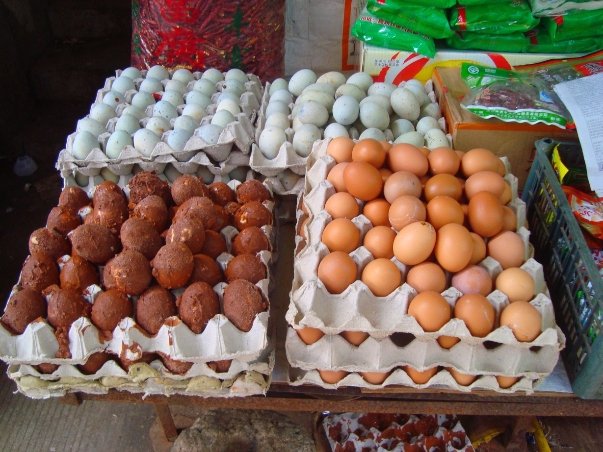 A variety of eggs as sold in Haikou, Hainan, China.